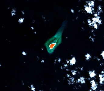 West York Island is the third largest island in Spratly Islands.